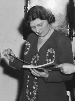 Conducting class. Anton Hartman, Hannes Uys, Albert Coates, Blanche Gerstman, Ernest Fleischmann. (1947)